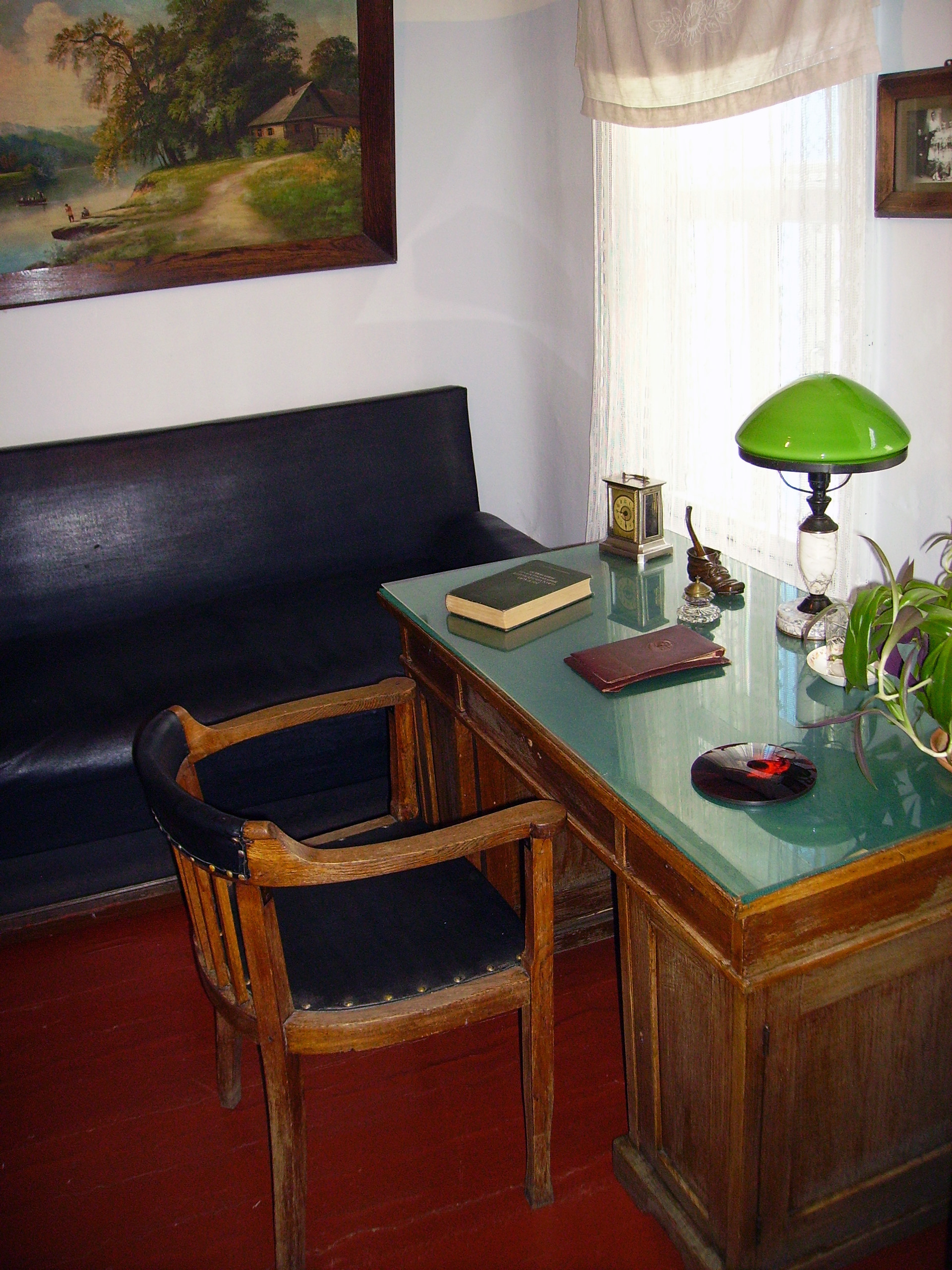 Kovrov. Working-room in Vasily Degtyaryov House Museum